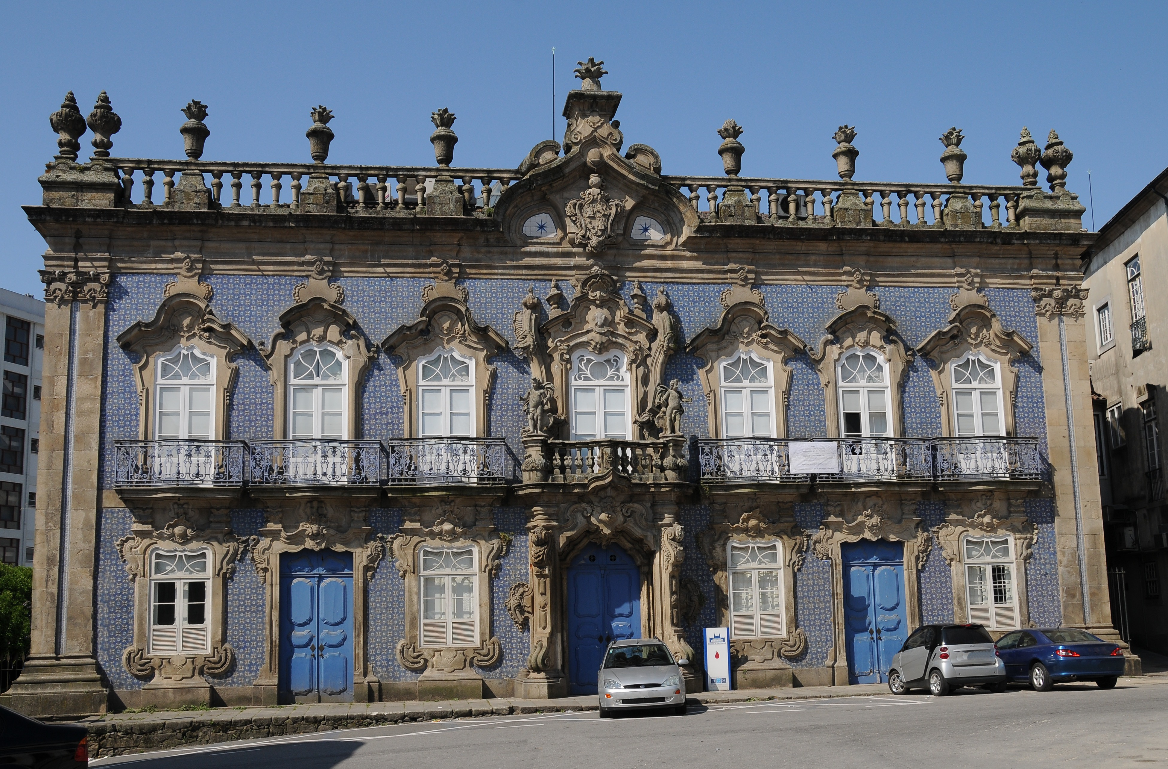 Raio Palace in Braga, Portugal.